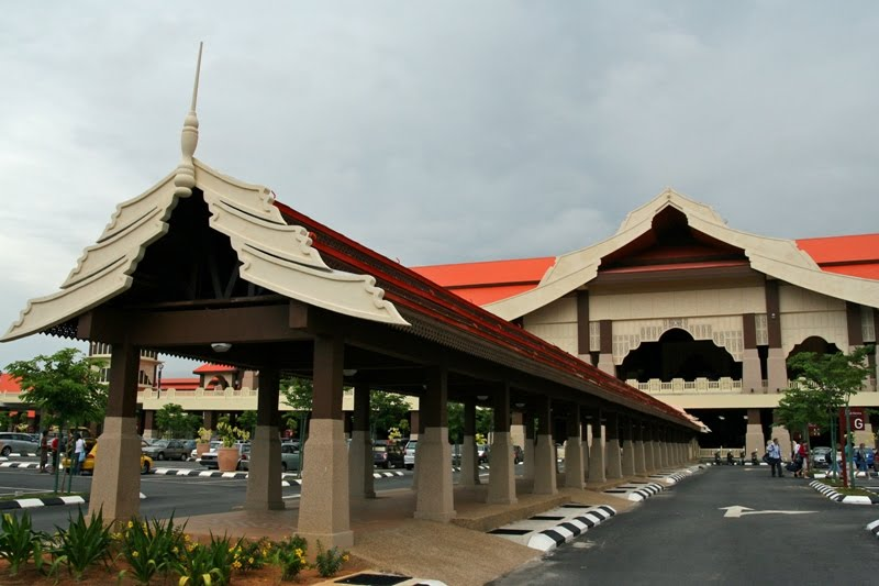 Sultan Mahmud Airport. Taken barely after construction finished.